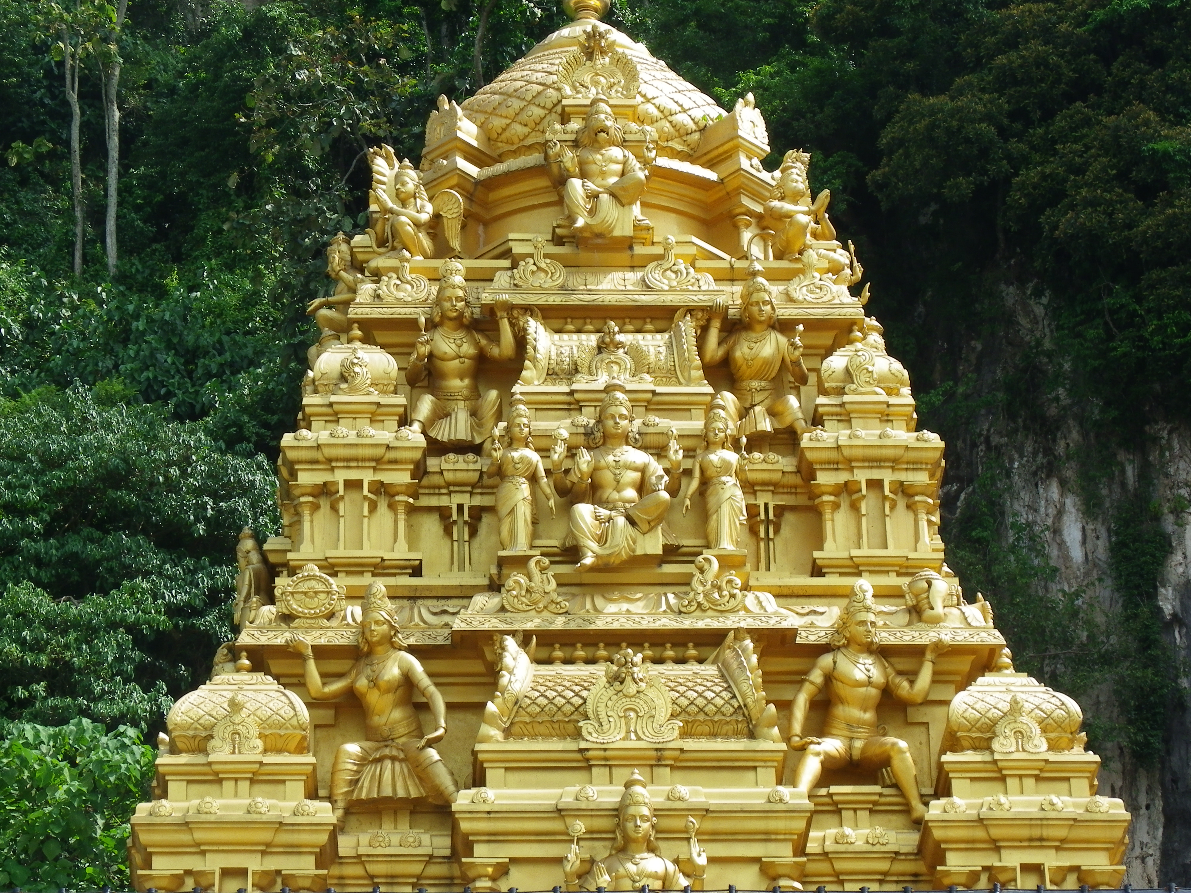 Shrine at the entrance to Batu Caves